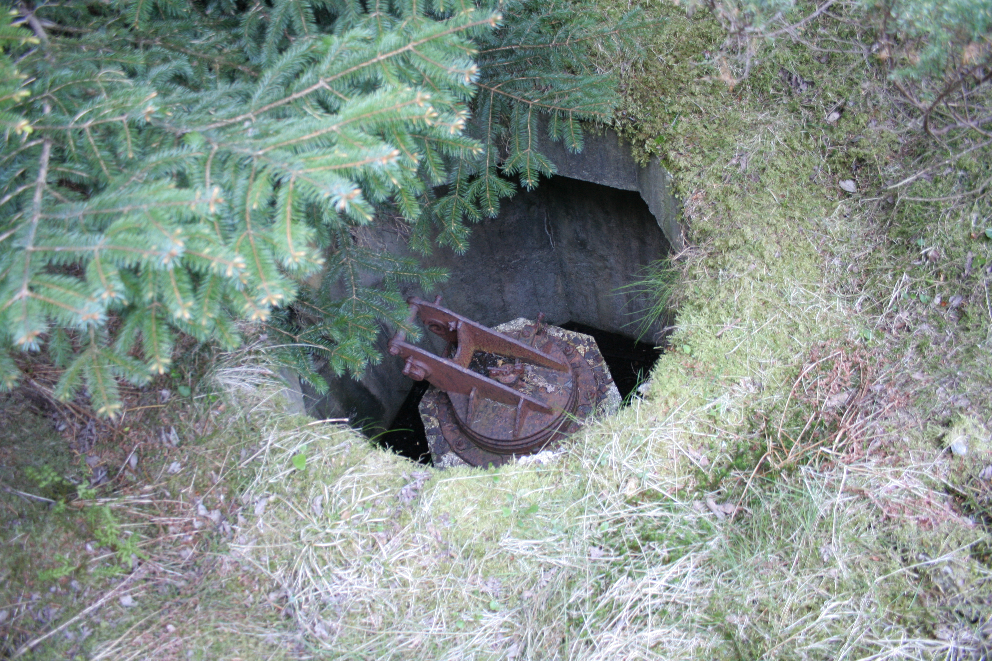 Partly overgrown emplacement for german mortar from WWII, bunker Ringstand 61 a.